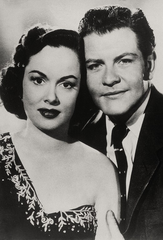 Joanne Jordan and Sean McClory in I Cover the Underworld (1955) - publicity still